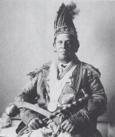 Photograph of Dr. Peter Edmund Jones, in the buckskin suit inherited from his father. The suit is decorated with porcupine quills and symbols of the Eagle totem. Jones holds a war club, and the tomahawk pipe Sir Auguste D'Este gave Jones' father. Jones may also have one of the feathers from his father's naming ceremony.